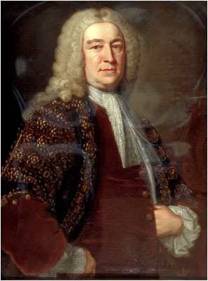 Portrait of Prime minister Henry Pelham (1694-1754)